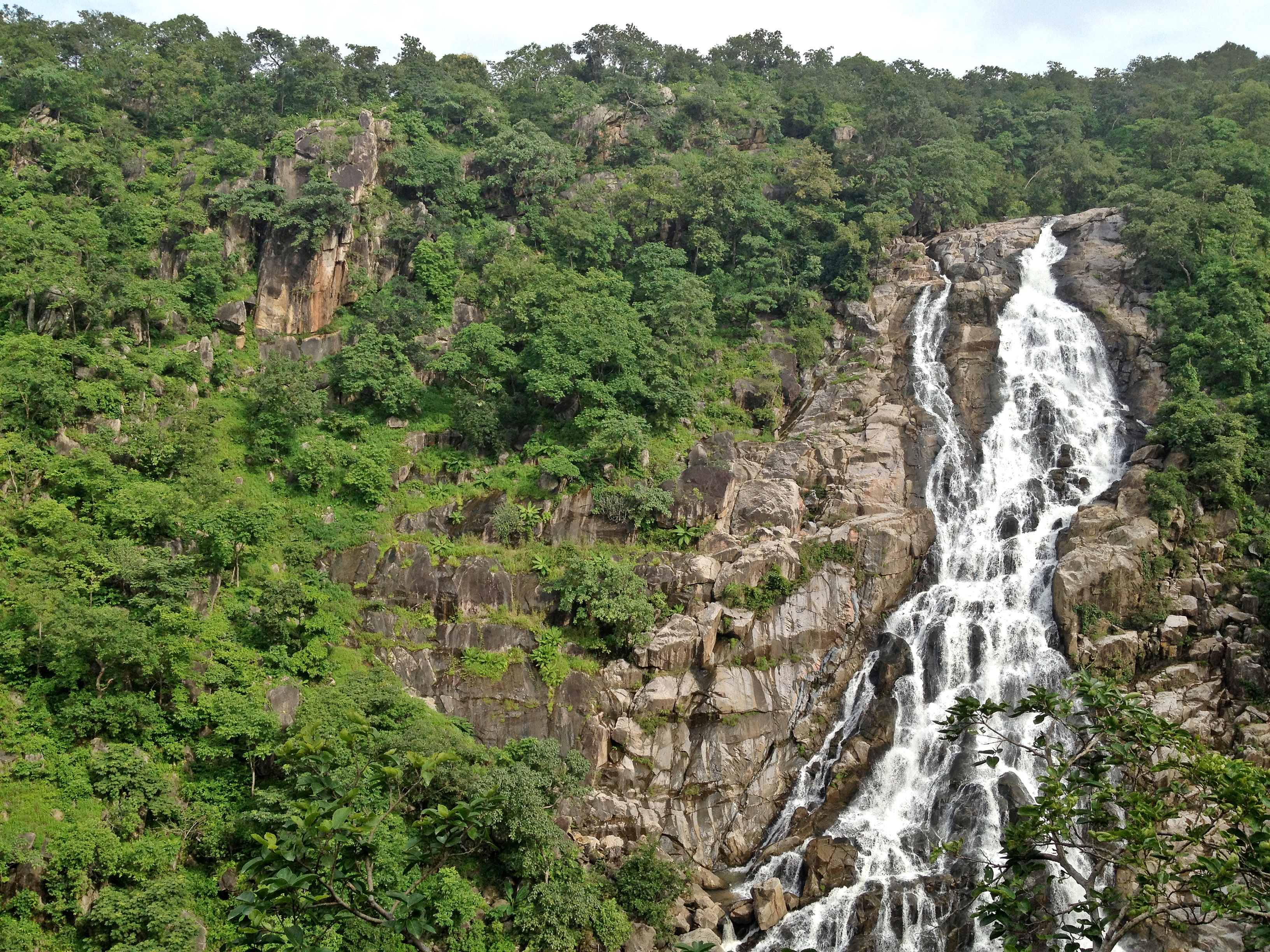 Ratanmahal sloth bear sanctuary is located in Dahod district of Gujarat. Ratanmahal is western edge of Vindhyachal. Sorthern edge of aravalli lies some hundred kms north to it and Western ghats northan tip lies some hundred kms south to it. This waterfall is situated in Gujarat- Madhya Pradesh Border. One can reach there after hiking of some 2 hours.